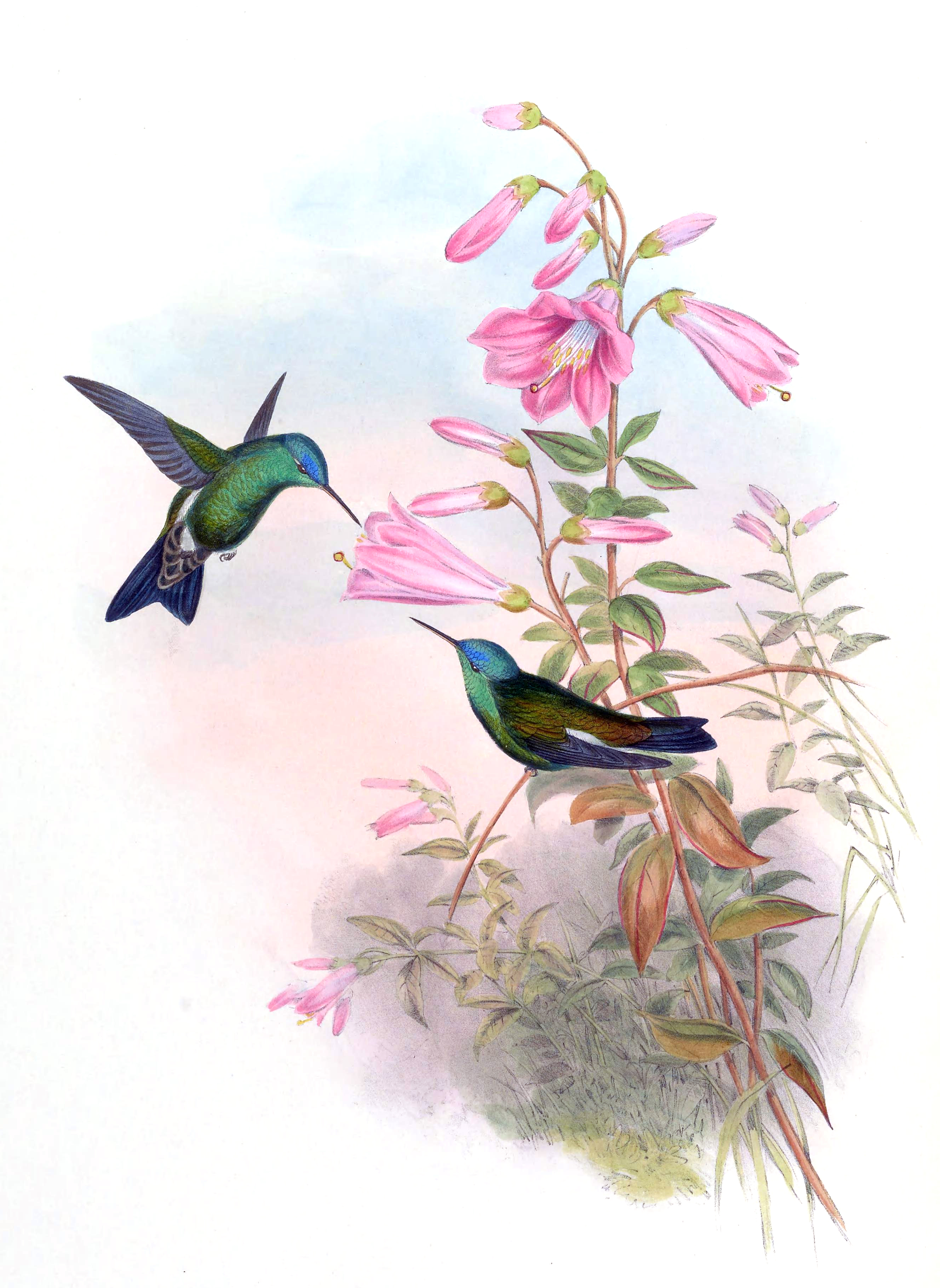 Saucerottia cyanifrons = Amazilia cyanifrons[1]